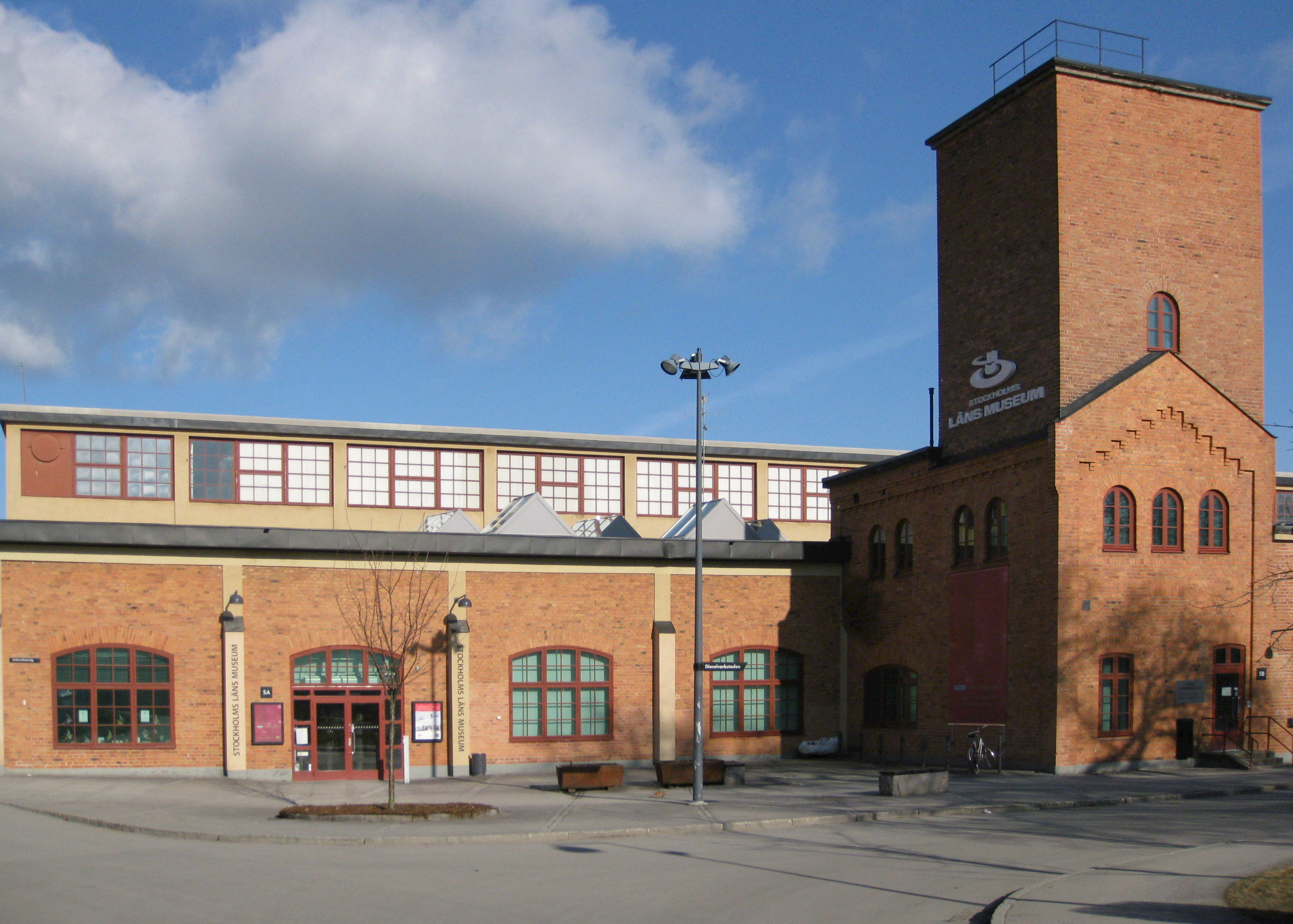 Stockholm County Museum, Sickla, east Stockholm, Sweden.